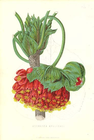 Astrapaea wallichii Lindl. (=Dombeya wallichii (Lindl.) K. Schum.) published by William Mackenzie